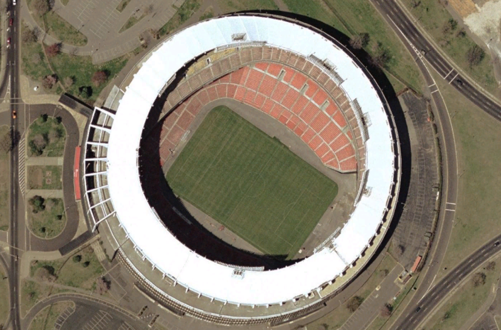 RFK Stadium satellite view, nasa world wind 1.3.5